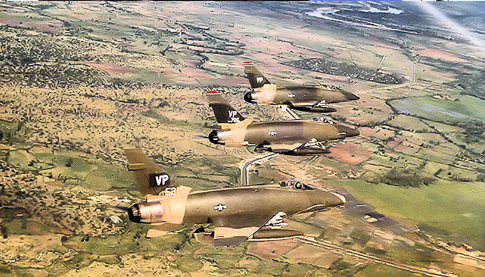 614th Tactical Fighter Squadron 3 shitp F-100D formation Phan Rhang AB.jpg